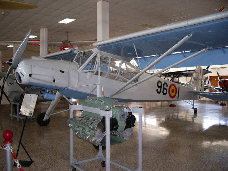 Photograph taken in "Museo del Aire", Spain. I am the author of this picture, and I'd desire everybody could see it freely in Wikipedia.